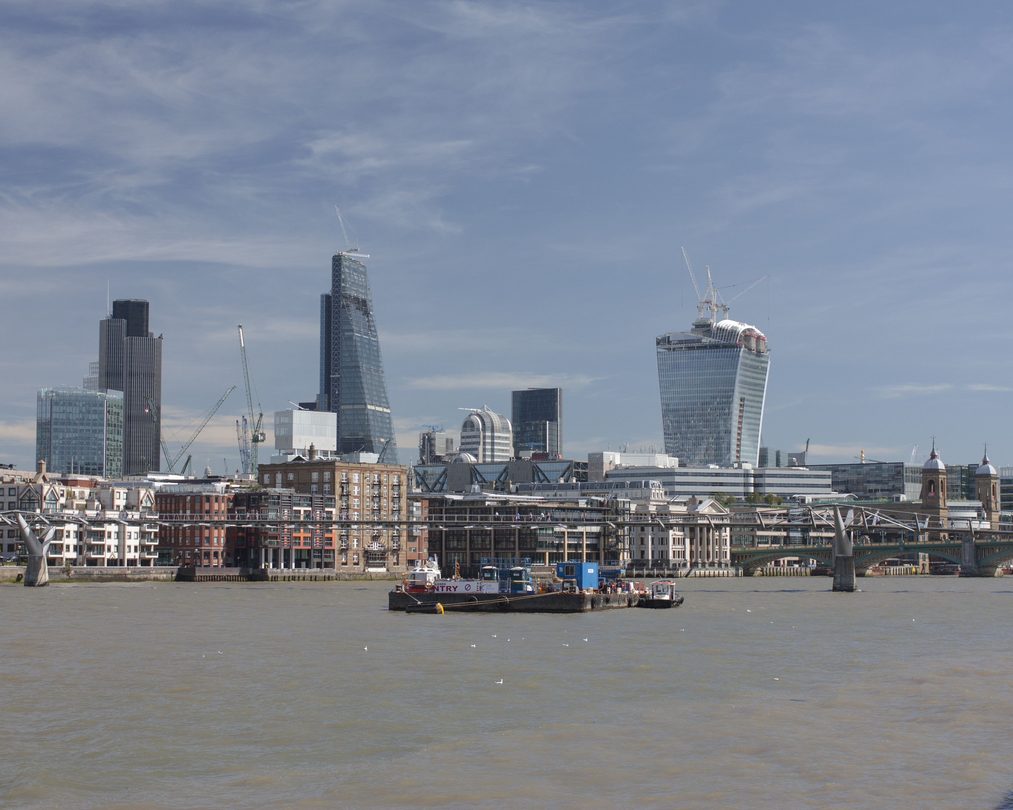 View of London's financial district, taken from the south bank of the Thames. Tower 42, 122 Leadenhall (Cheese Grater) and 20 Fenchurch Street (Walkie Talkie) can be seen from left to right, respectively.